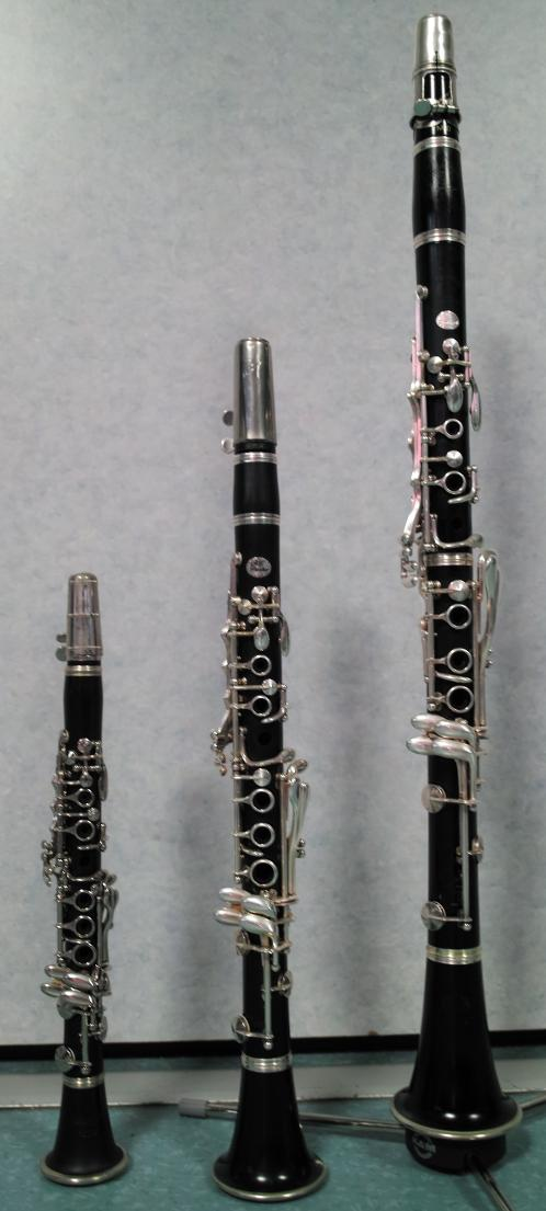 Clarinets from left to right: piccolo, small soprano, big soprano.